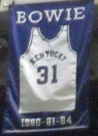 A jersey honoring Sam Bowie hangs in Rupp Arena